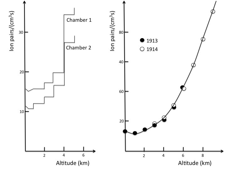 Cosmic rays: Increase of ionization with height as measured by Hess in 1912 and by Kolhörster in 1913 and 1914